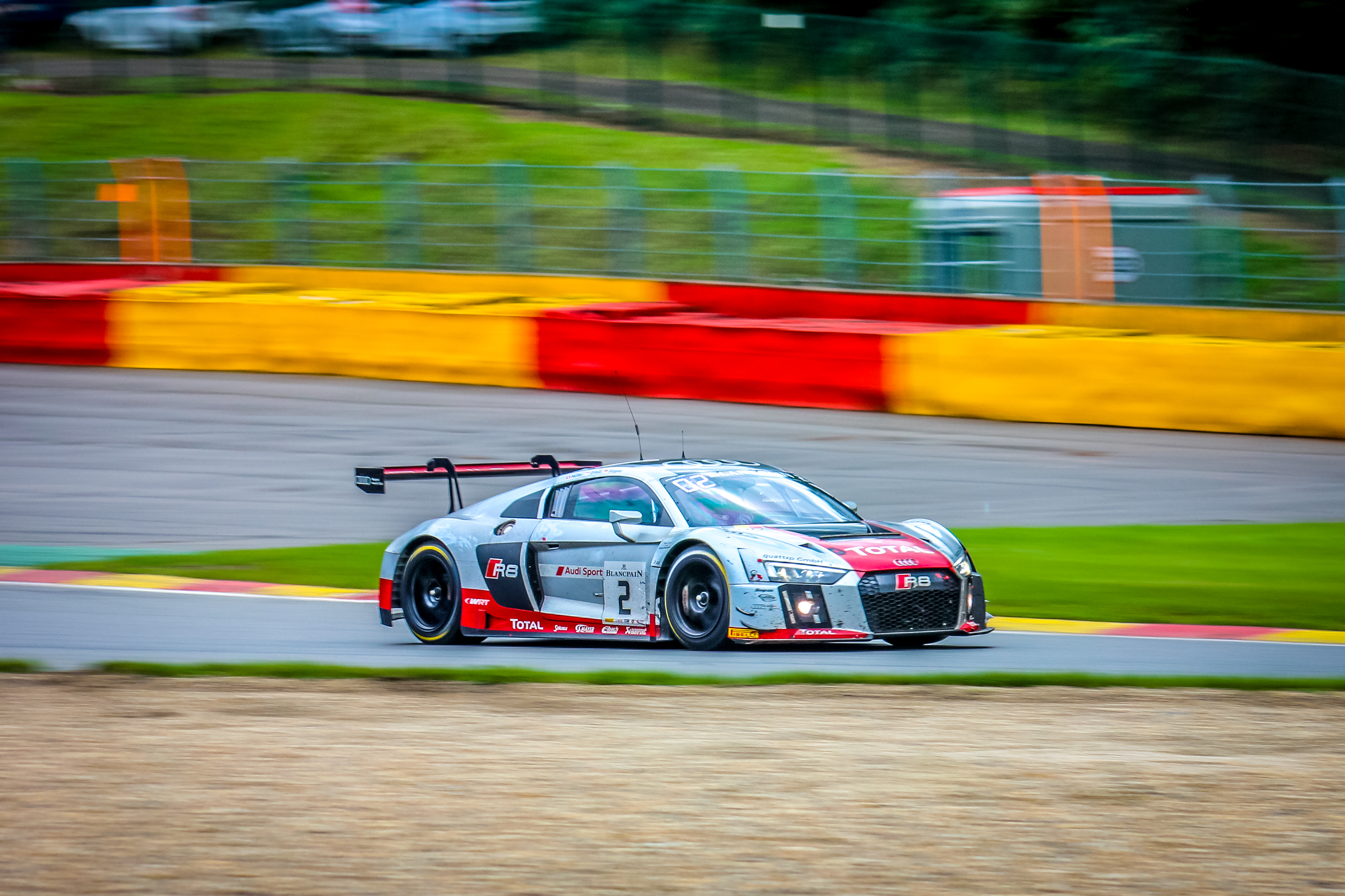 Audi R8 LMS at the Spa-Francorchamps circuit